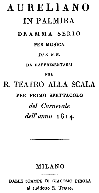 Gioachino Rossini - Aureliano in Palmira - titlepage of the libretto - Milan 1814